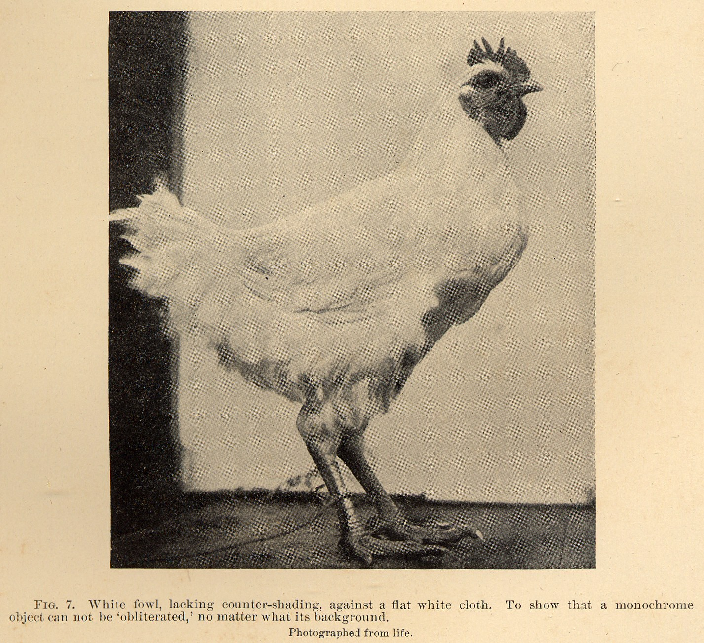 Figure 7, 'White fowl lacking counter-shading' from Thayer 1909. Thayer argued in the book that almost all animal coloration was for camouflage, principally via countershading.